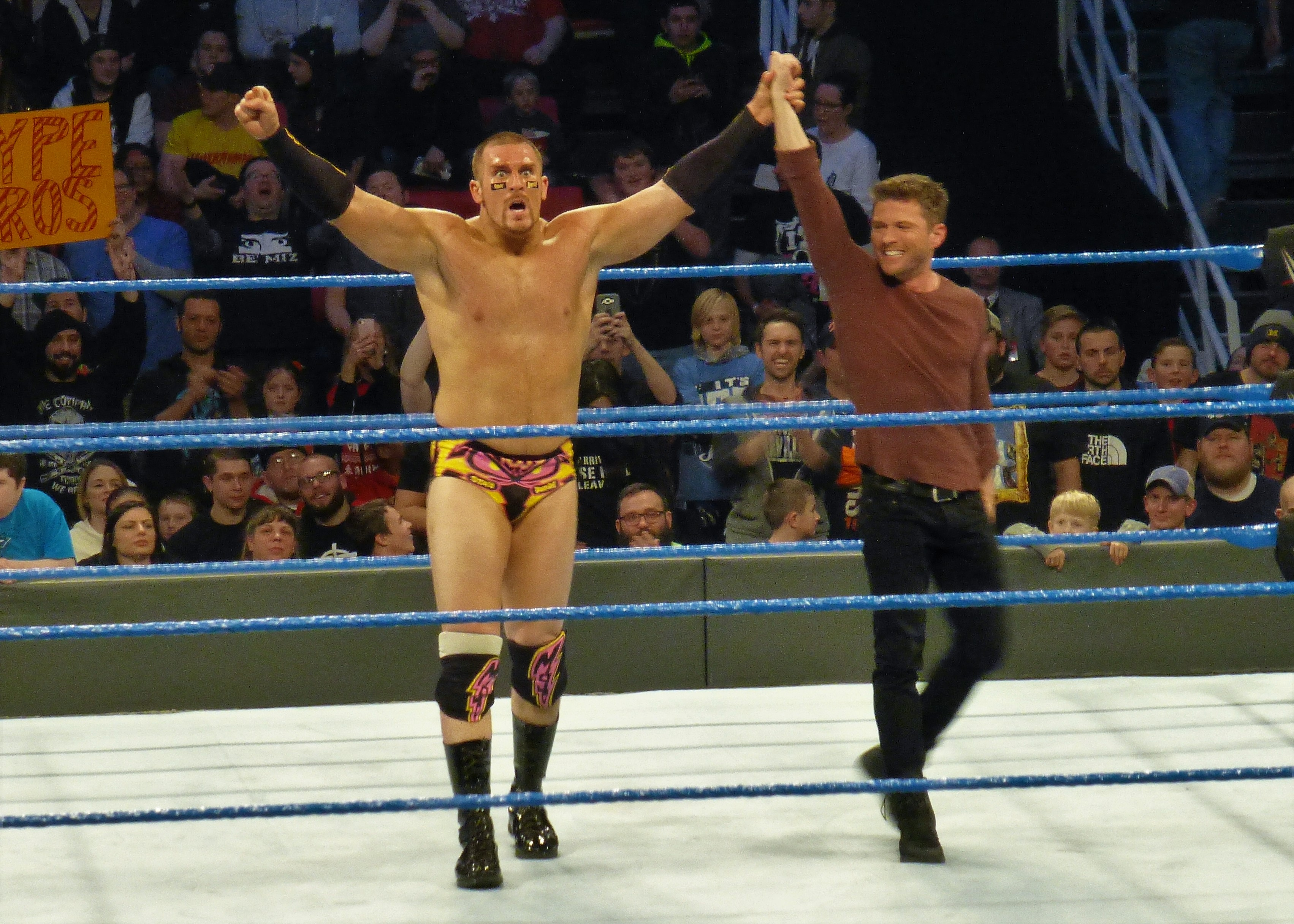 Mojo Rawley and Ryan Phillippe